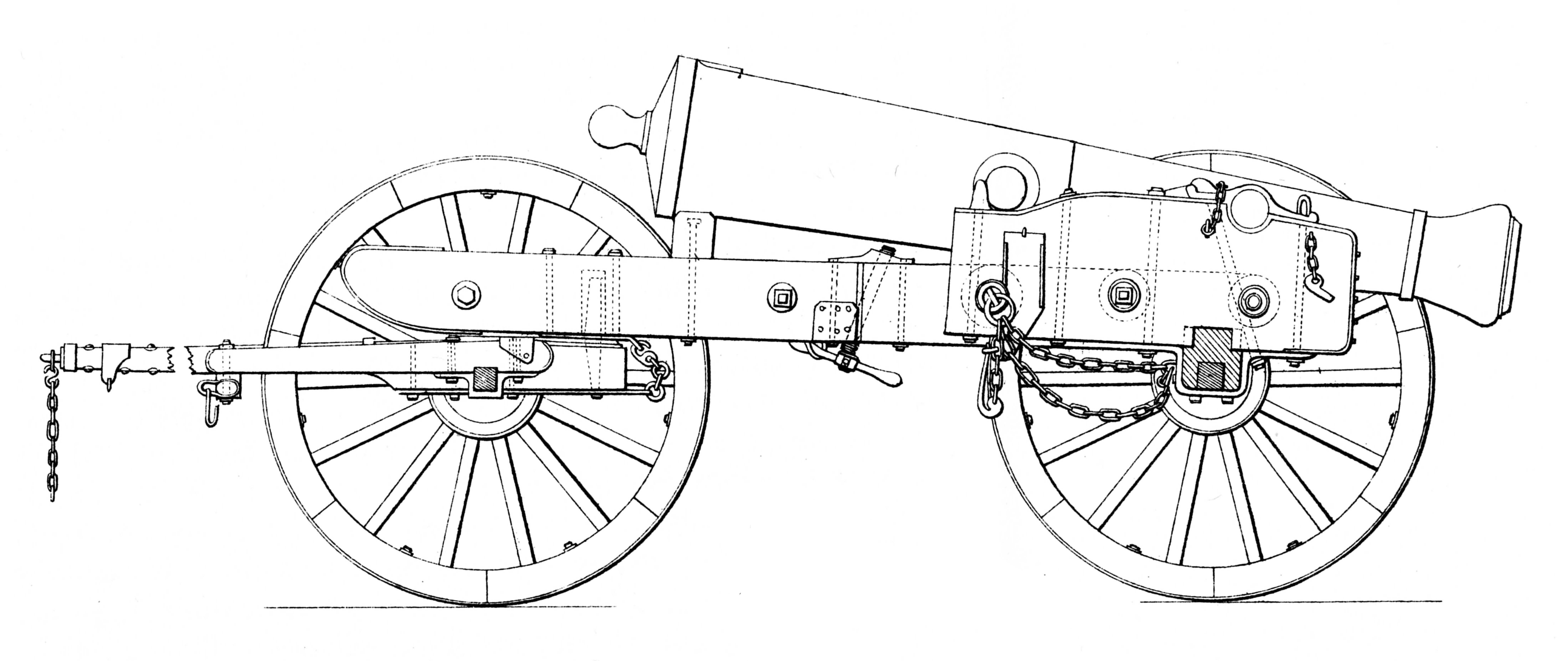 Line Engraving of 24-pdr siege gun on carriage in traveling position